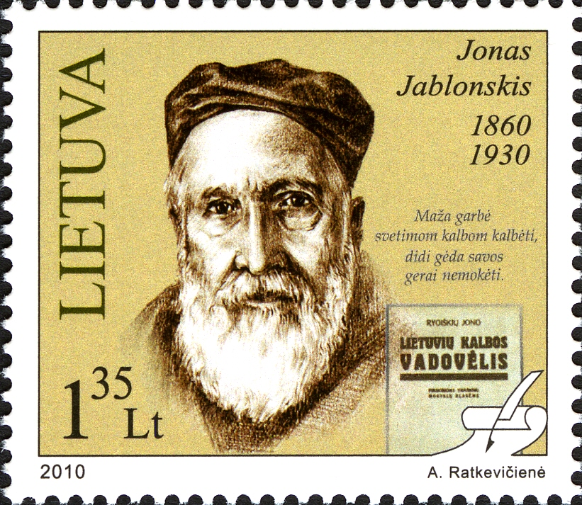 Famous People - Lithuanian Language Master Jonas Jablonskis